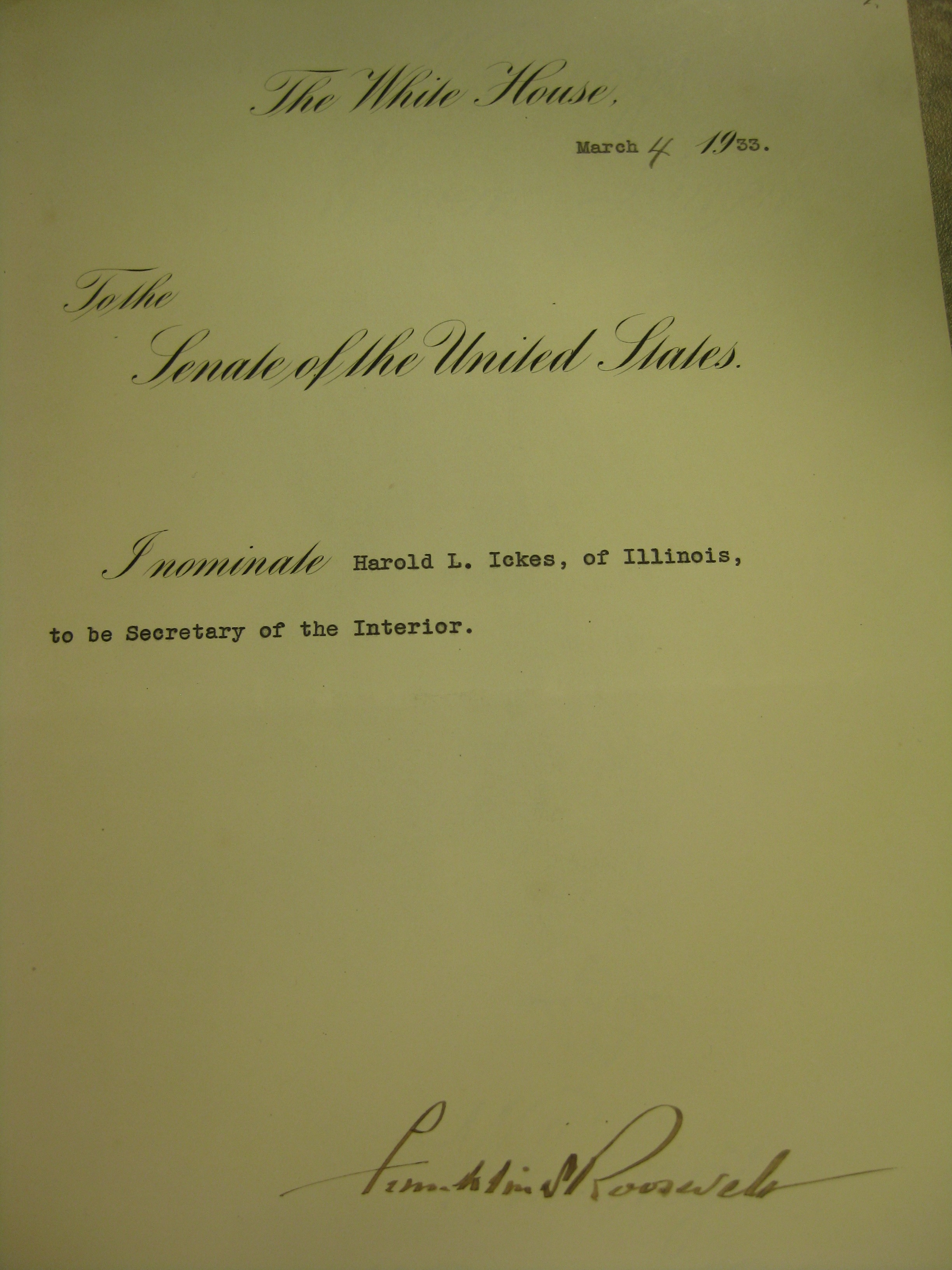 Franklin Roosevelt's nomination of Harold Ickes to serve as Secretary of the Interior. Courtesy of the National Archives and Records Administration.